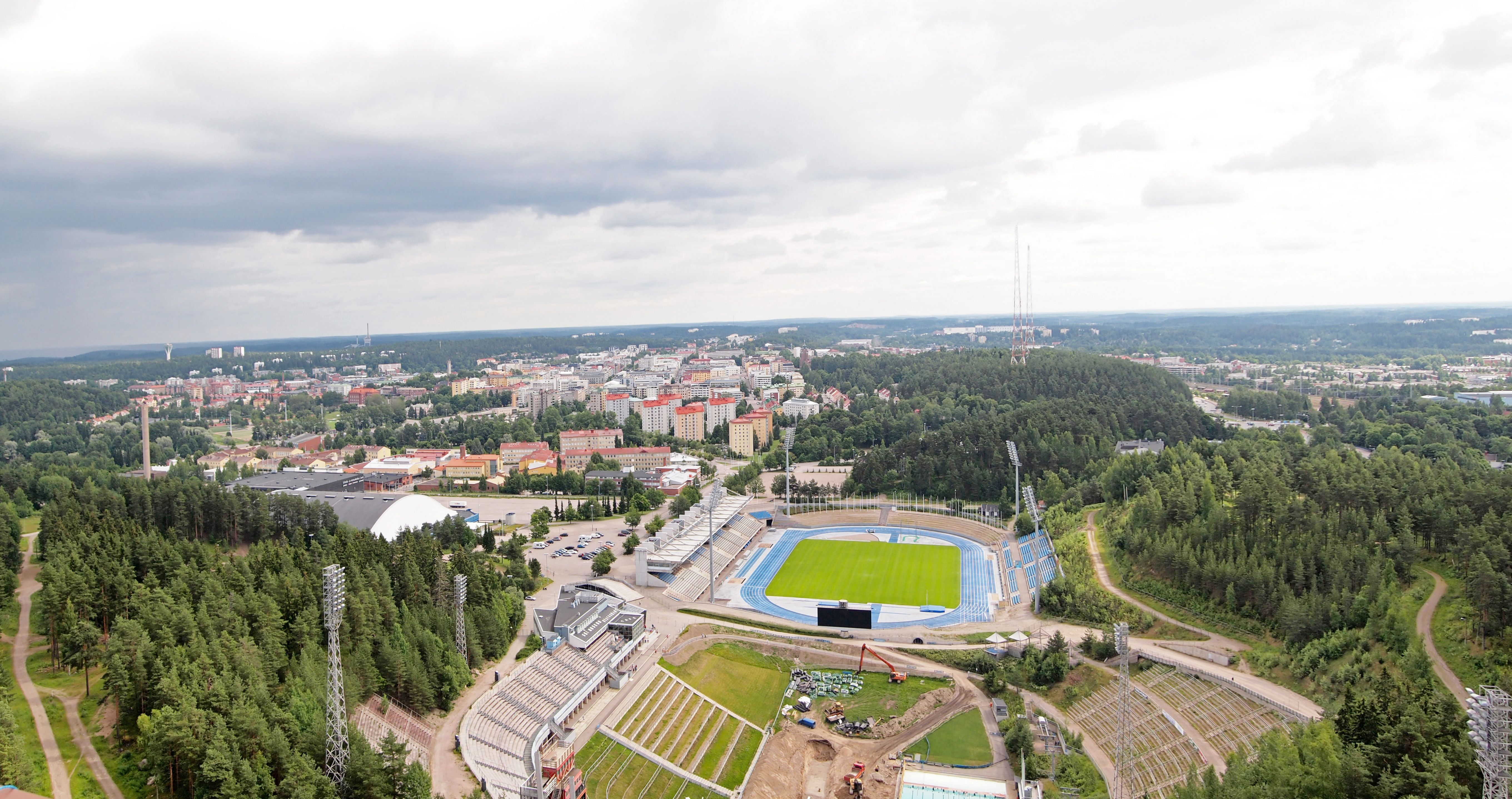 View from the ski jumping hill.